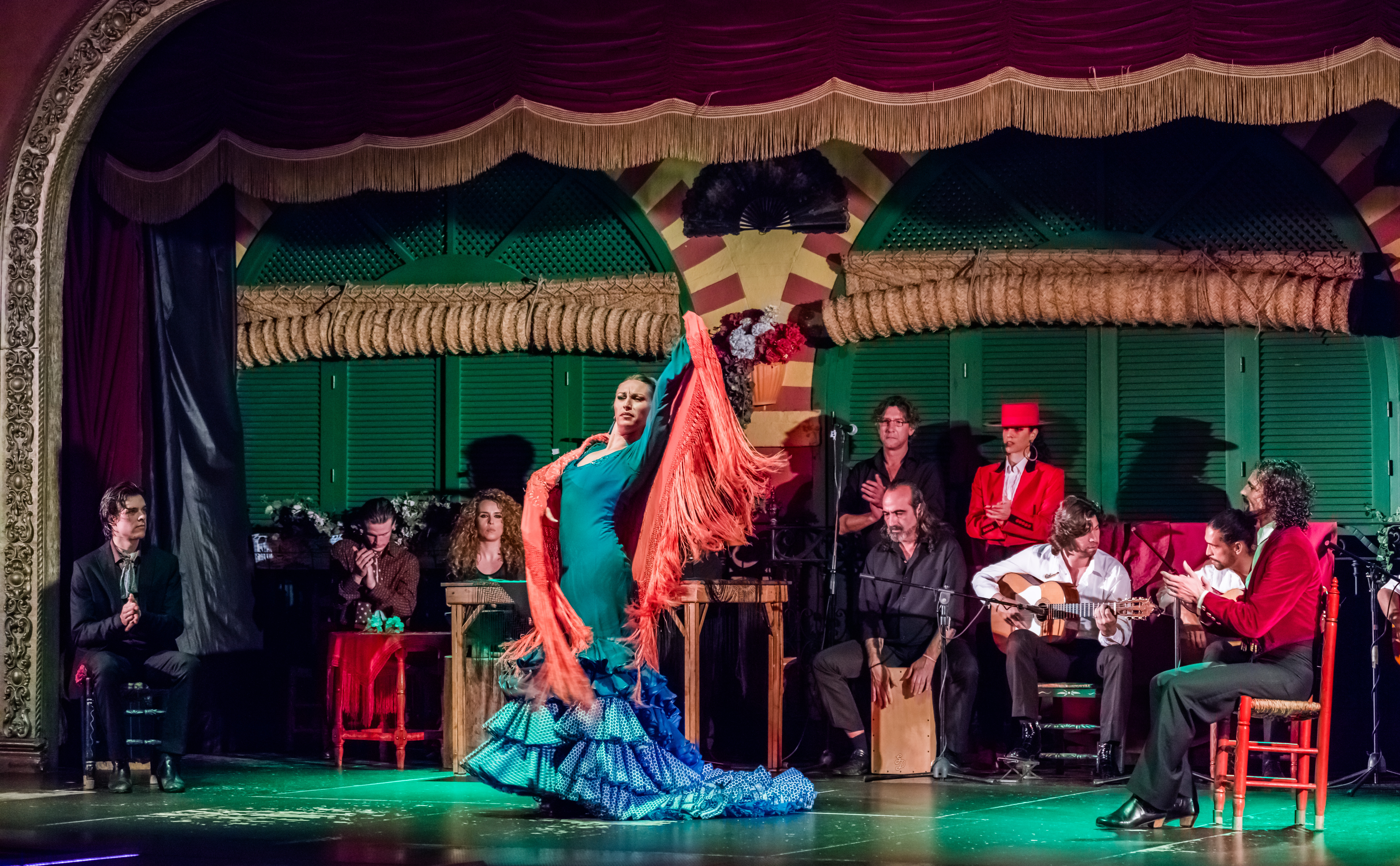 Flamenco performance in Palacio Andaluz, Sevilla, Spain